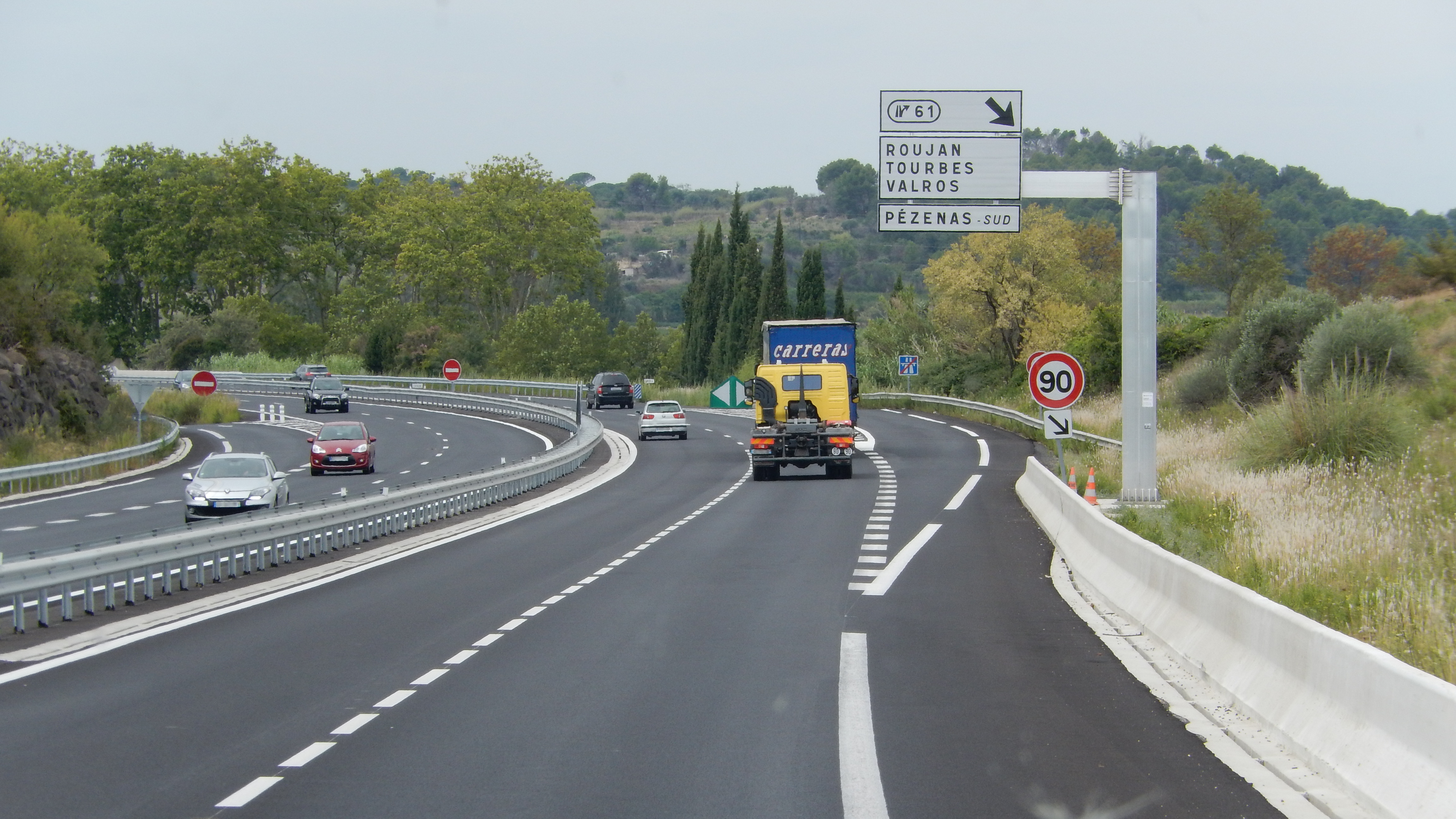 At the south of Pézenas (Hérault, France) : the exit number 61 on the A75 motorway, as seen by drivers driving from the north to the south.